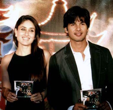 Indian actors Shahid Kapoor and Kareena Kapoor Khan at the audio launch of their 2006 film 36 China Town